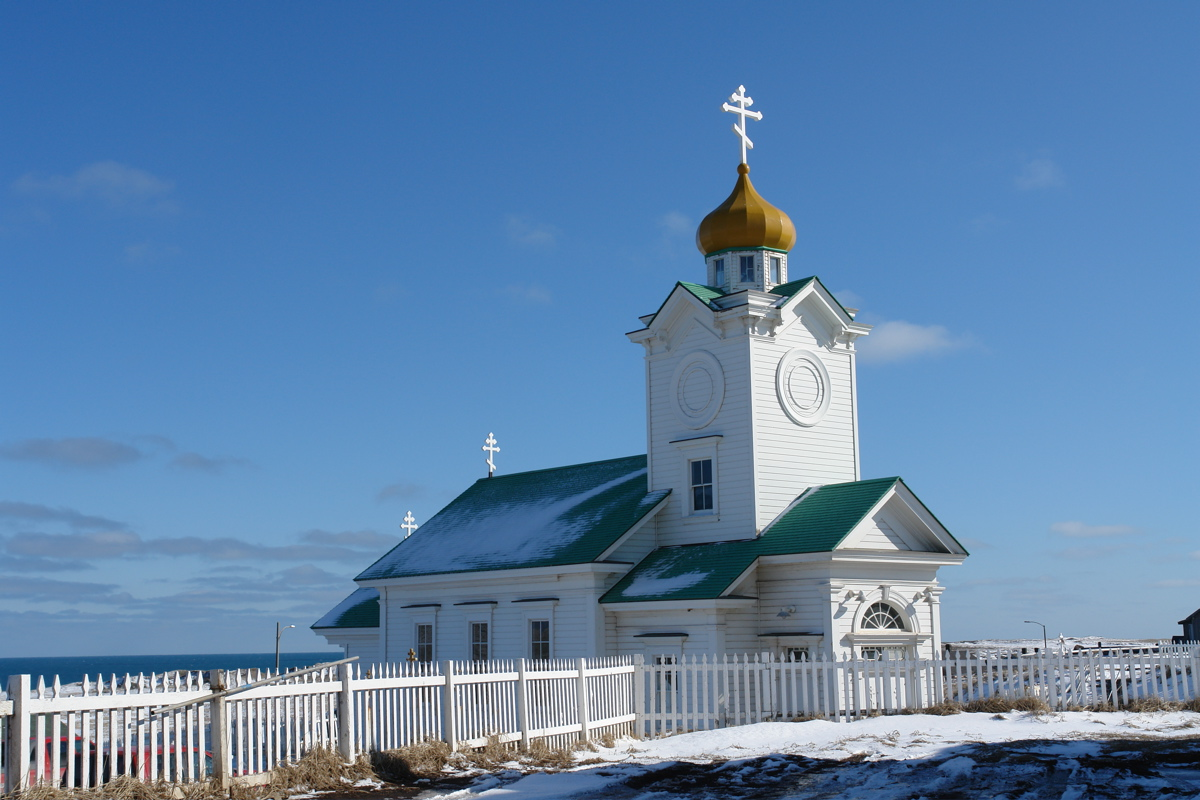 Saints Peter and Paul Russian Orthodox church, St. Paul Island, Alaska